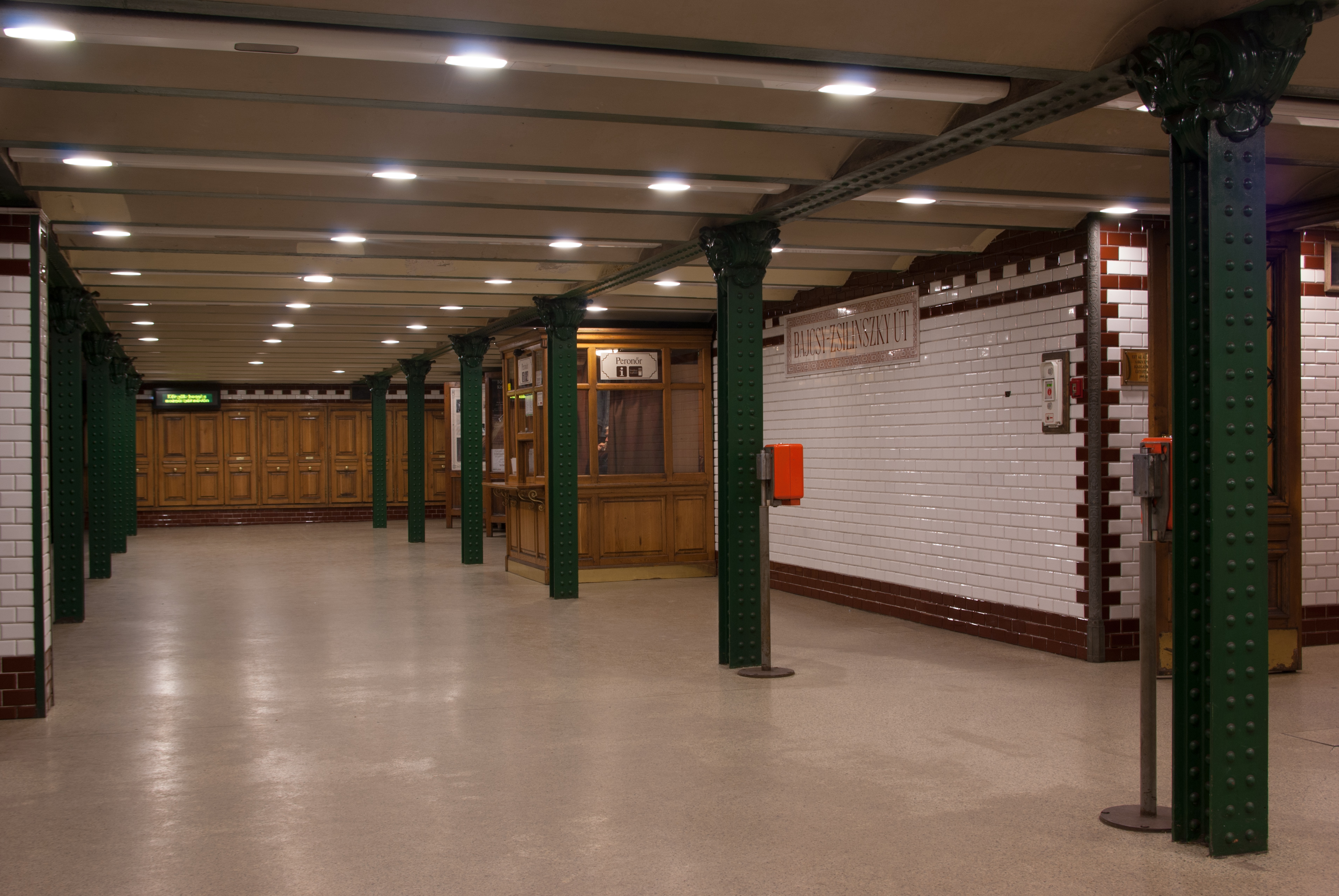 The interior of the station "Bajcsy-Zsilinszky út" on the first line of Budapest metro. On the right behind the near column facing the entrance to the station from the street. In the center are orange-red ticket validators. In the background, in the center - room of the duty of station. On the left, out of the frame, the railway, just behind the metal columns. The station was opened on may 2, 1896.